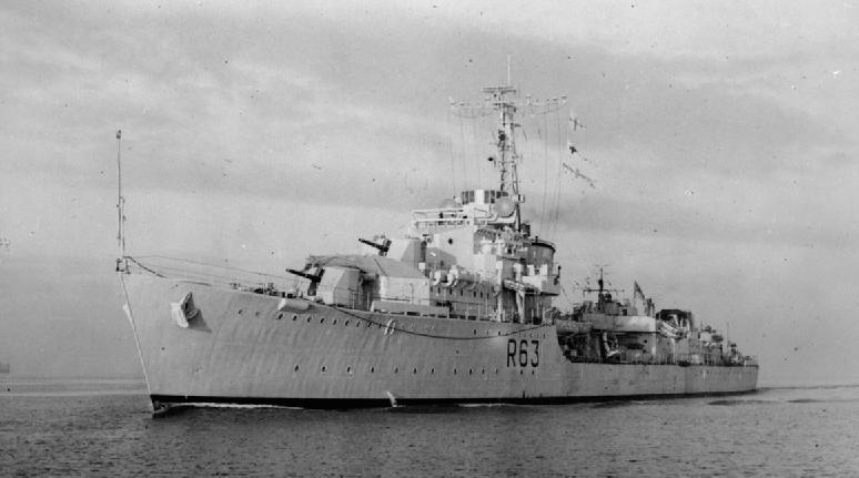 British destroyer HMS CONCORD underway.